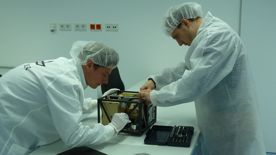 Integration fo the MASCOT lander by the DLR engineers.